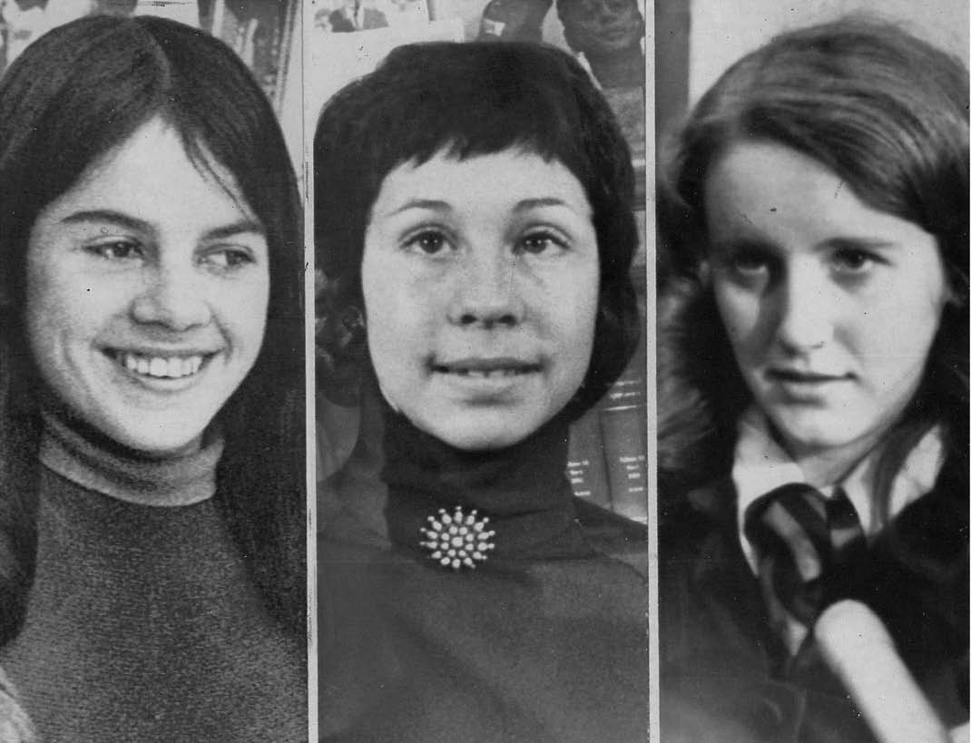 First Female Pages (left to right): Julie Price, Ellen McConnell Blakeman and Paulette Desell-Lund, 1972.